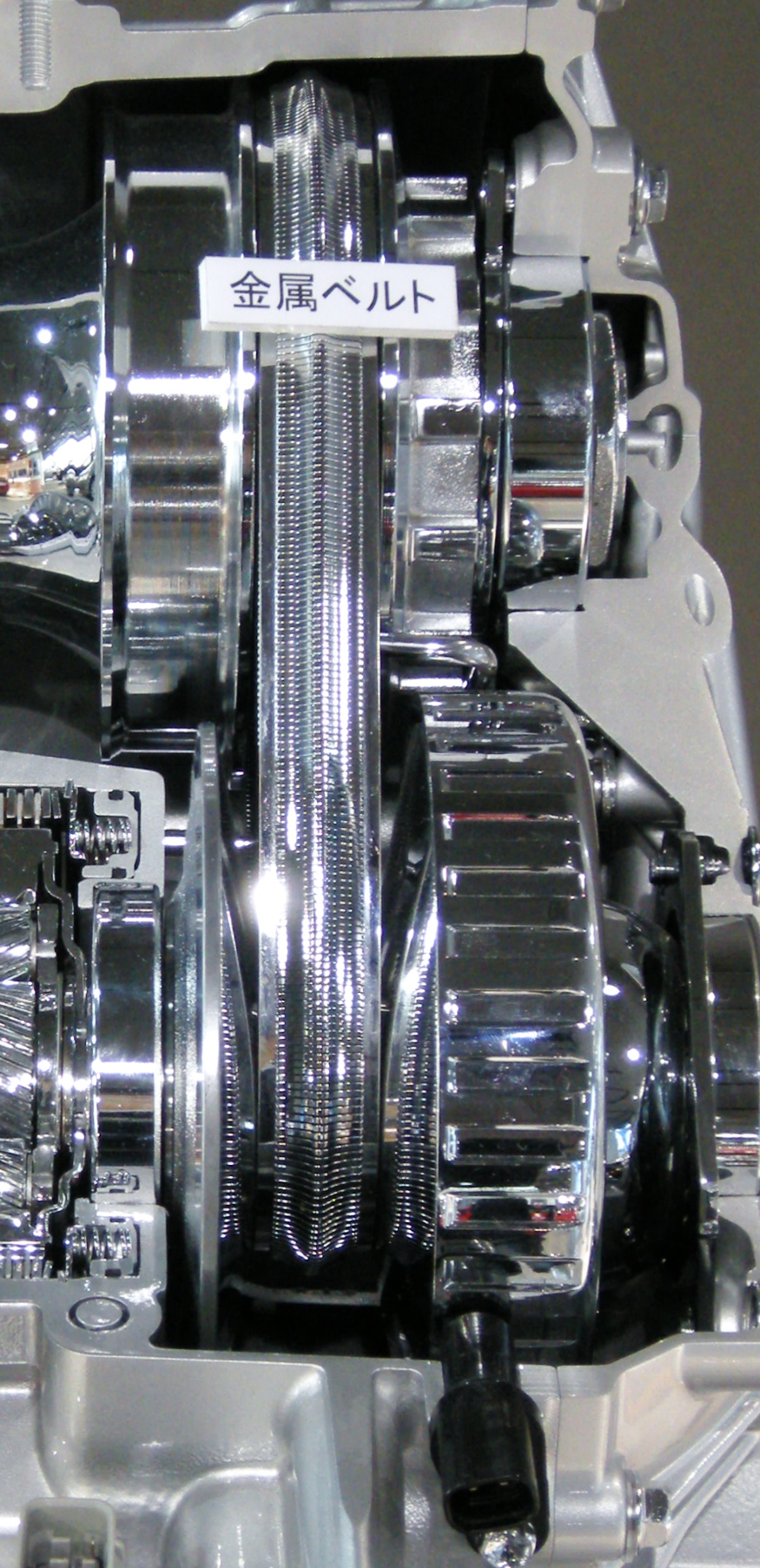 A cutaway photograph of Toyota Super CVT-i (Continuously variable transmission)